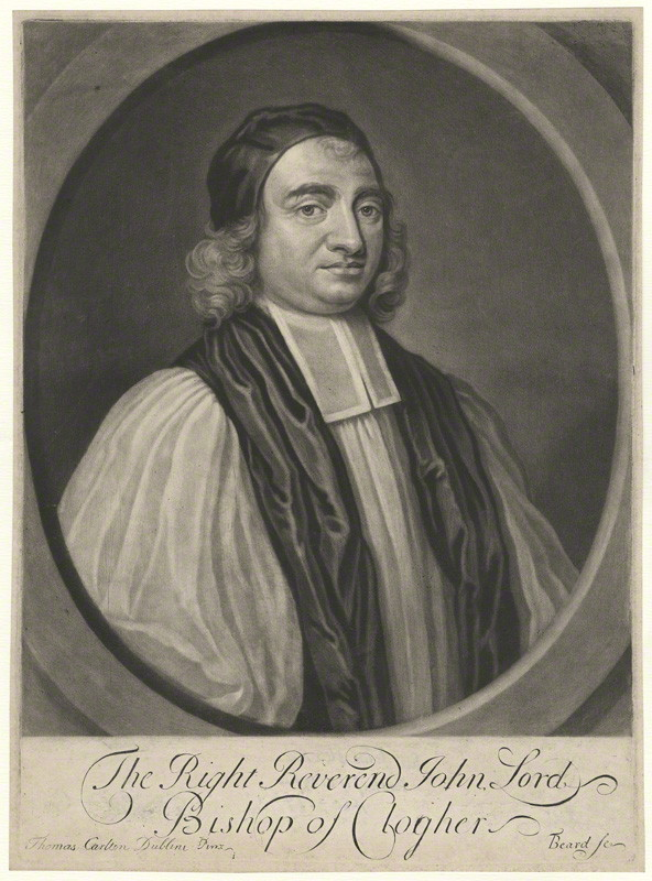 Portrait of John Sterne (1660–1745), Irish churchman.